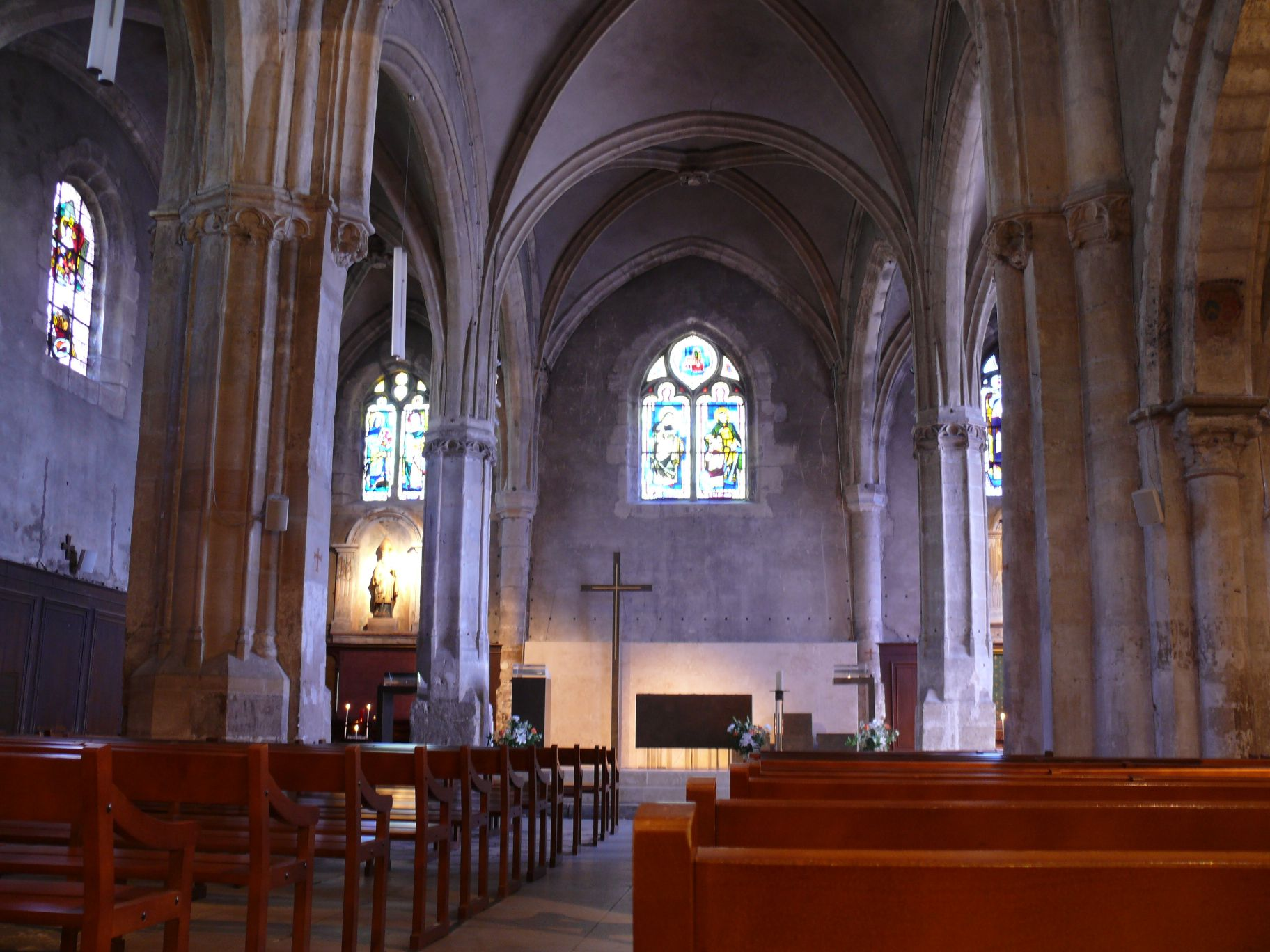 Saint-Germain-de-Charonne's church, in Paris (Paris XX, France)